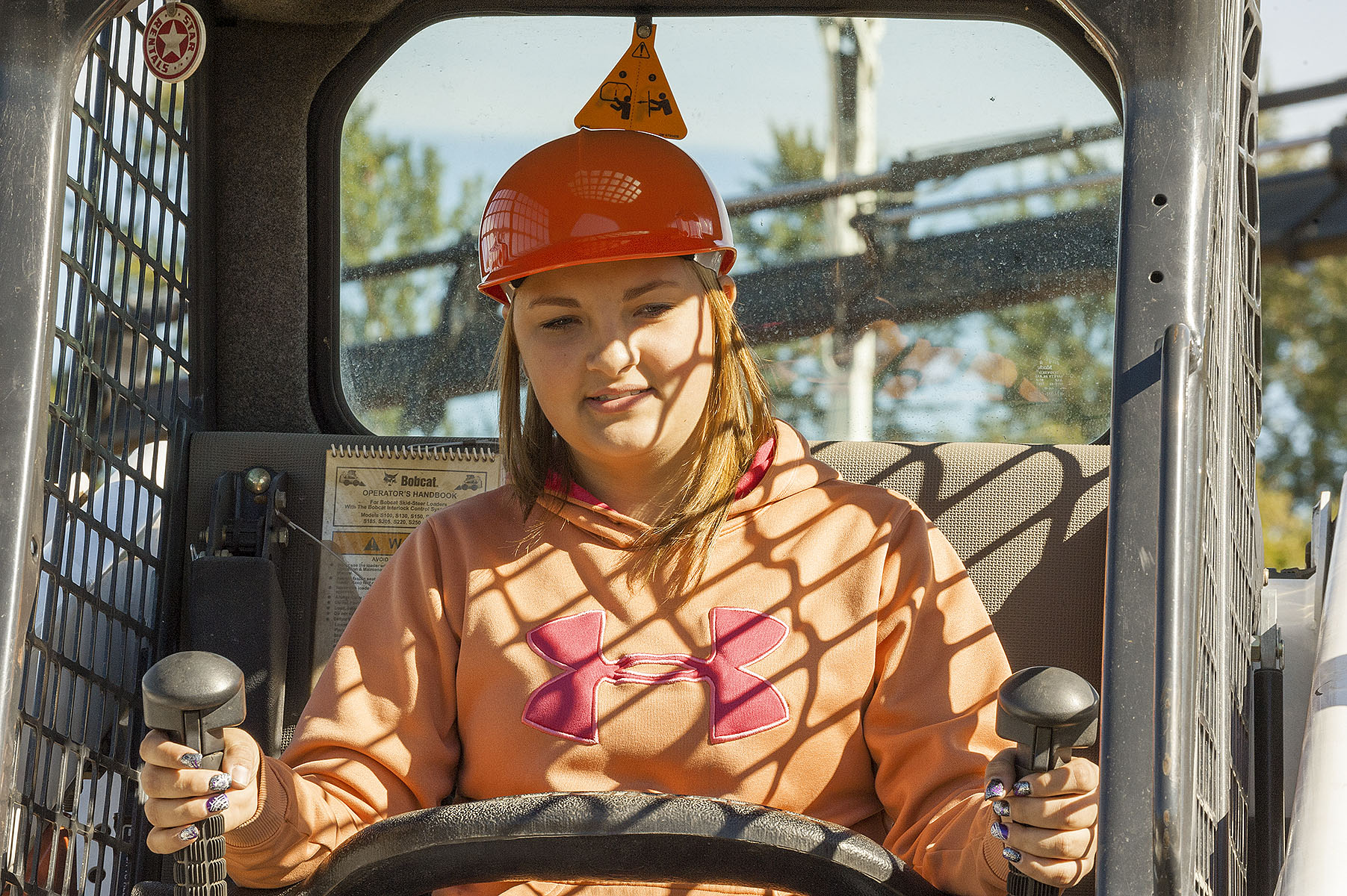 At the controls